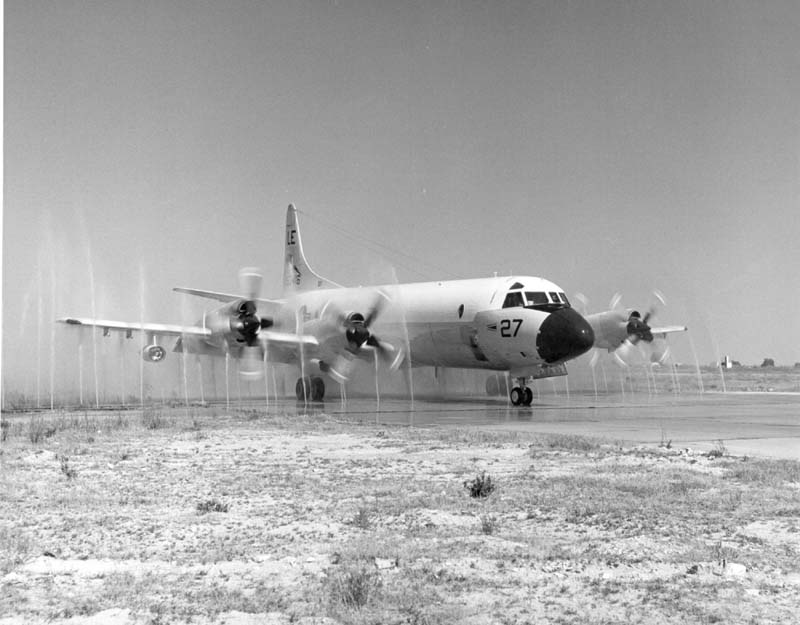 VP-11 (LE 27) P-3A (BuNo 153416) goes through the rinse rack at NAS Rota, Spain. Photo taken 30 September 1971 by PH1 J.H. Albrecht. Photo from Naval Historical Center. Repository: San Diego Air and Space Museum Archive